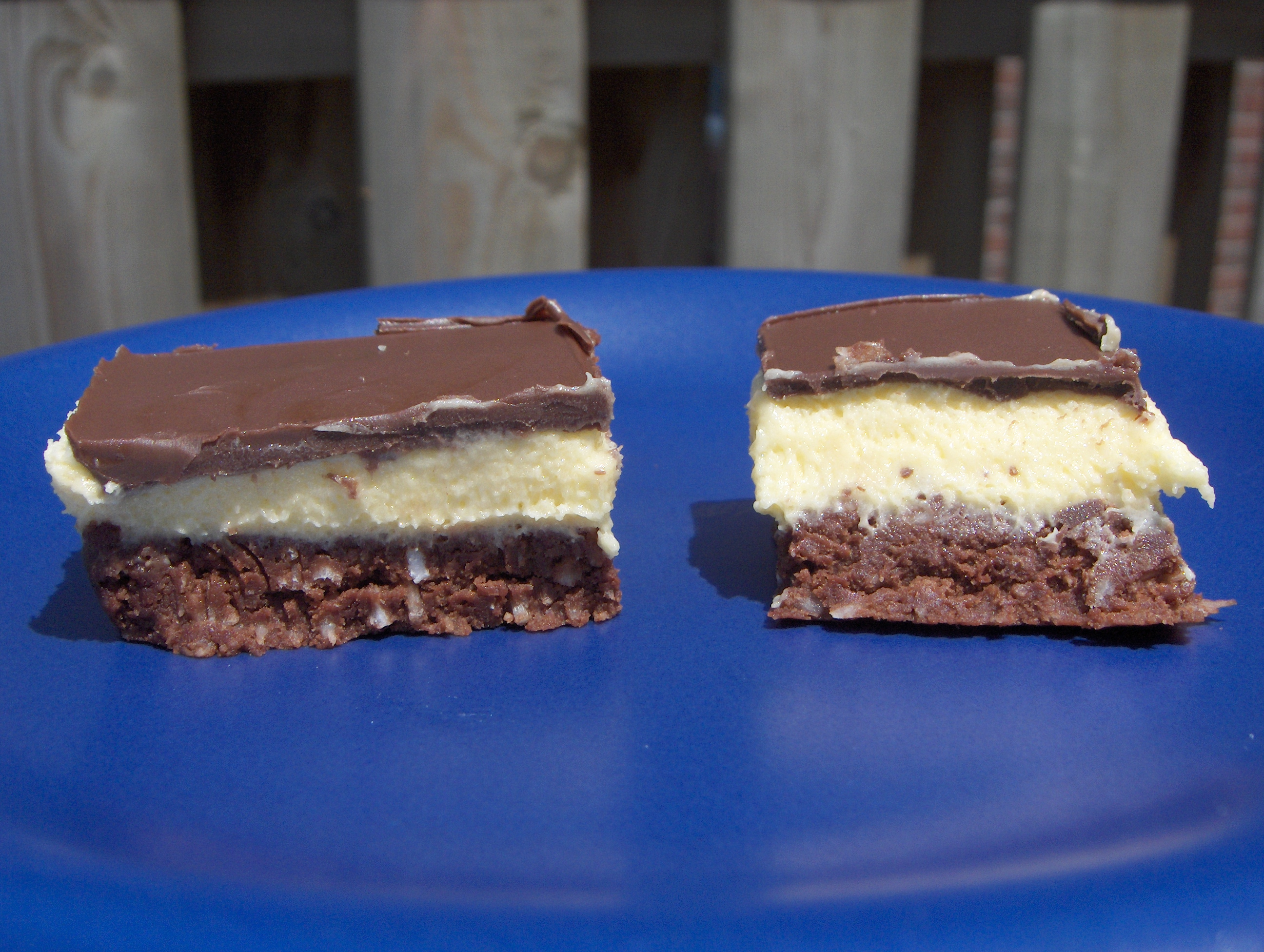 Two nanaimo bars on a blue plate